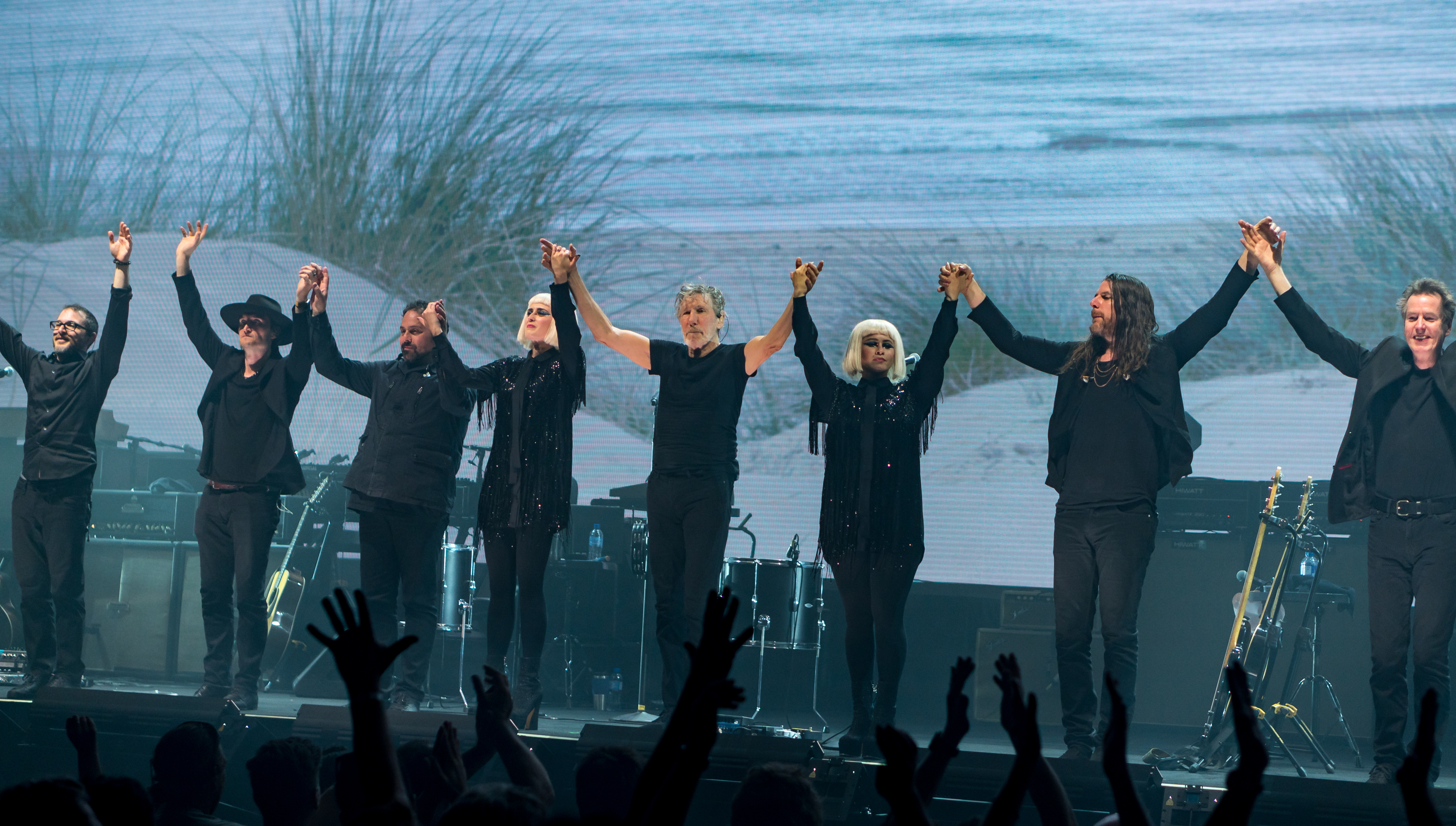 Roger Waters on the Us+Them Tour in New Zealand, 2401-01-24